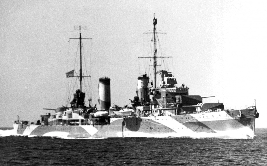 HMAS Perth wearing her distinctive disruptive camouflage paint scheme.